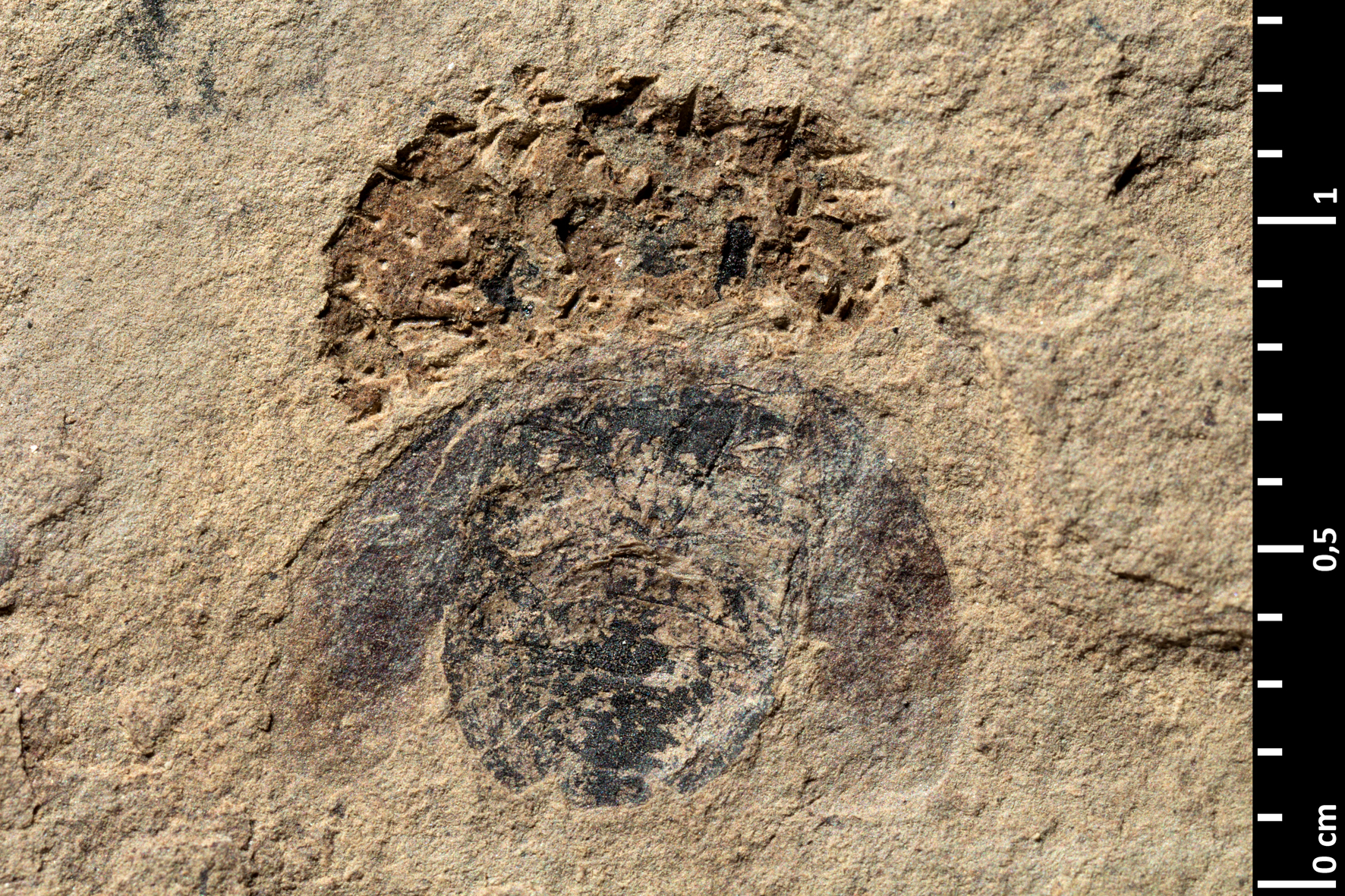 The Doryderes laticollis holotype specimen with direct lighting. Thanetian, Paleocene; Menat Formation, Puy-de-Dôme, France Muséum national d'Histoire naturelle specimen MNHN.F.B47389